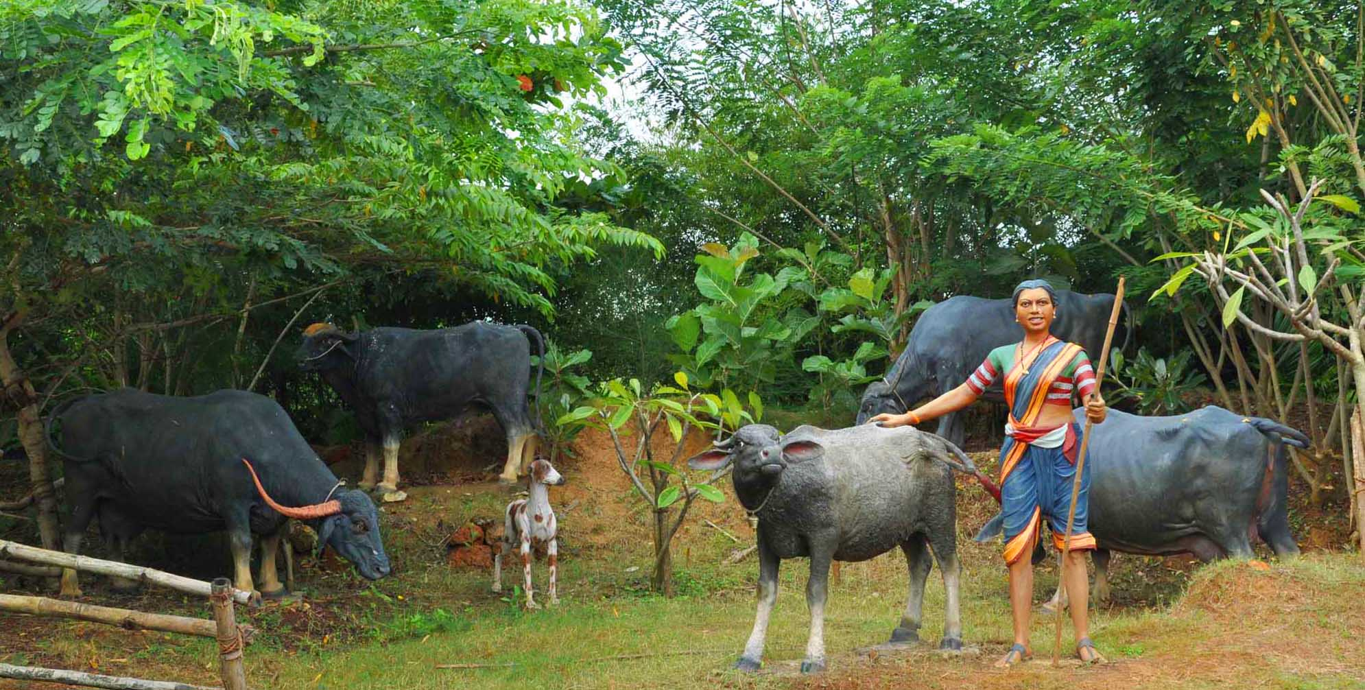 Women with herd of cattles